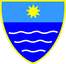 Coat of arms of Herzegovina-Neretva Canton